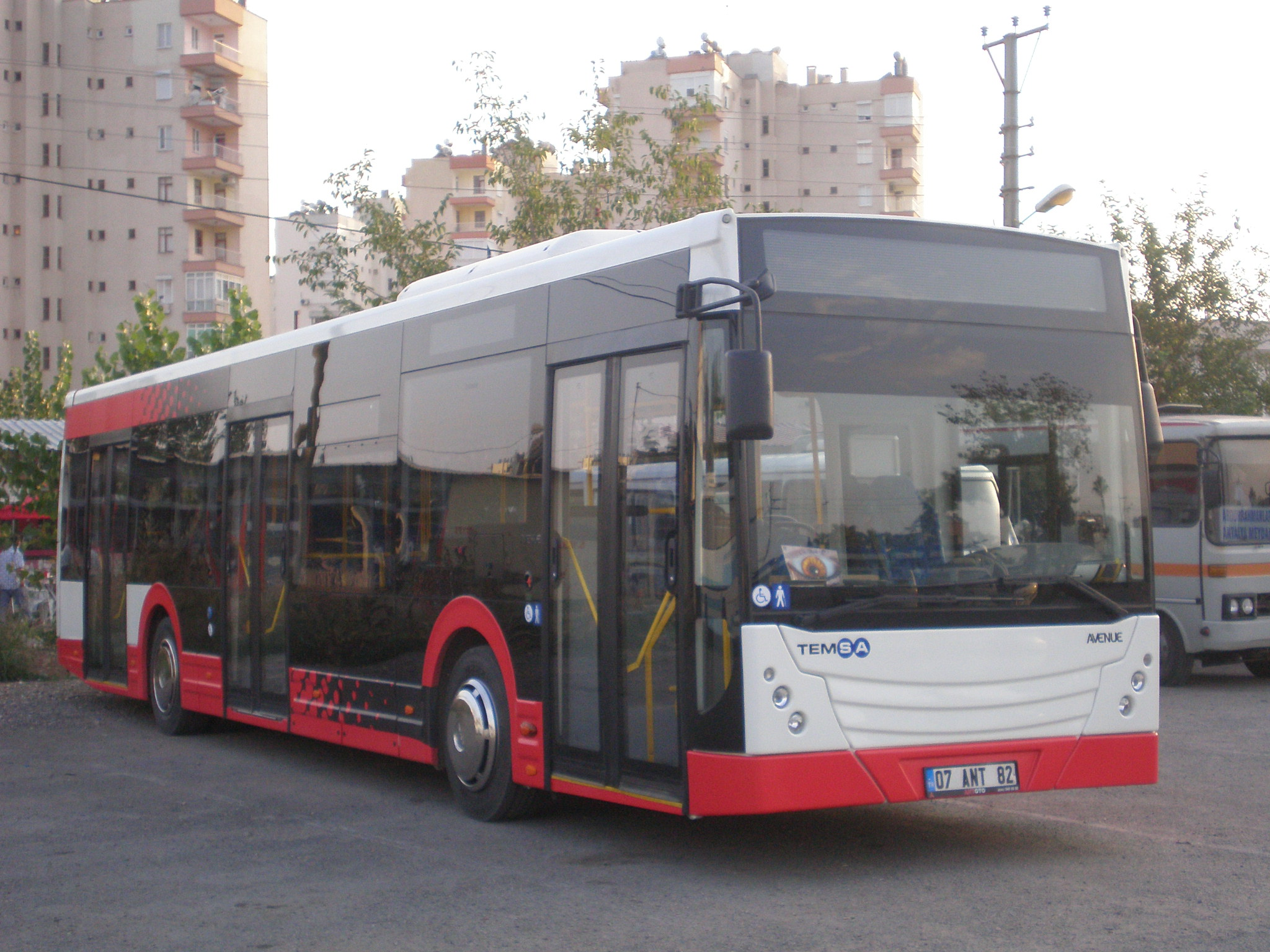 Temsa Avenue bus used by Metropolitan Municipality of Antalya for test drives and cultural events.